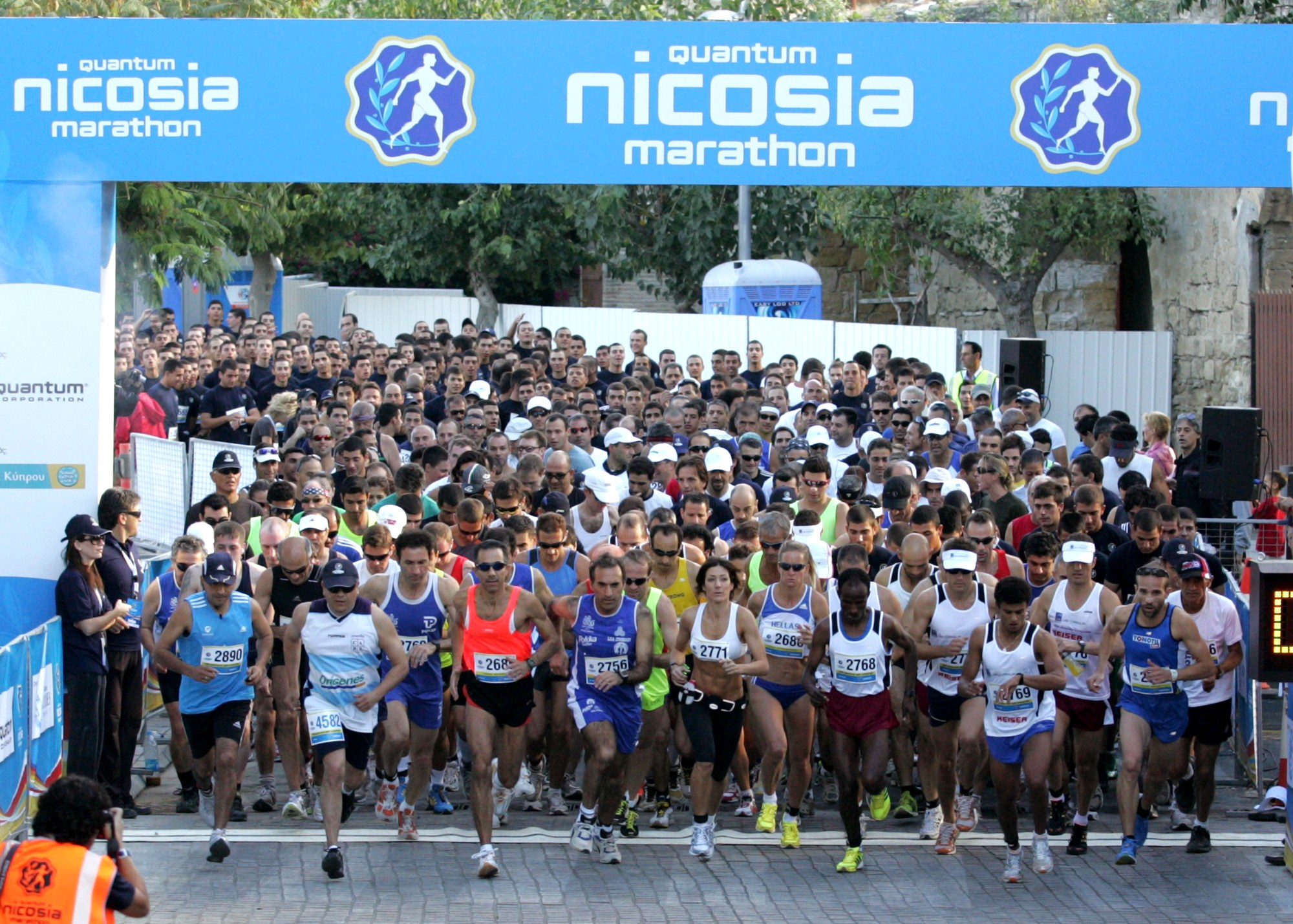 Quantum Nicosia Marathon, 10. October 2010-Start